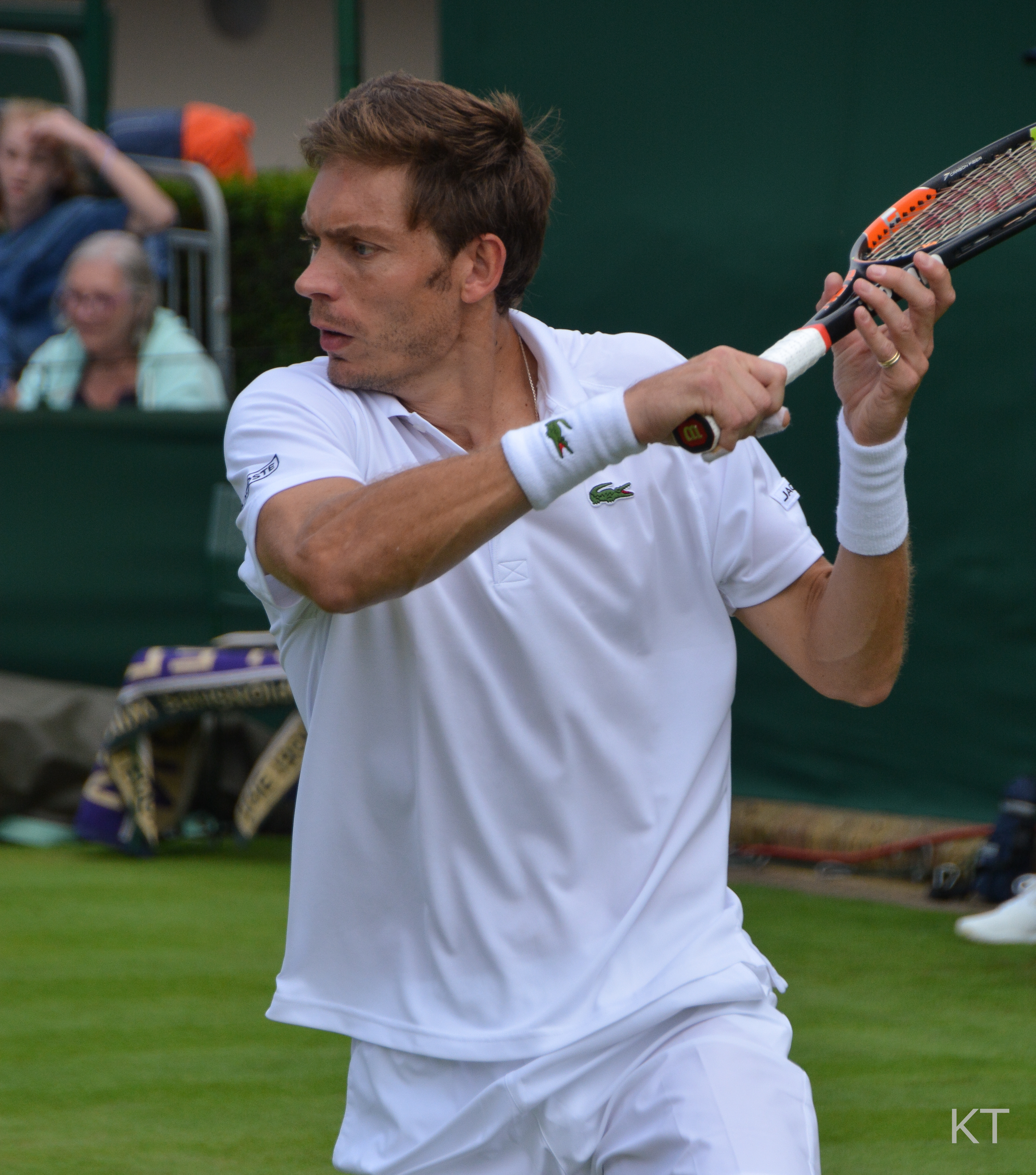 Day 1 of Wimbledon 2016